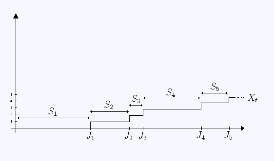 Hand-made diagram showing sample evolution of a renewal process (probability theory). Renewal theory